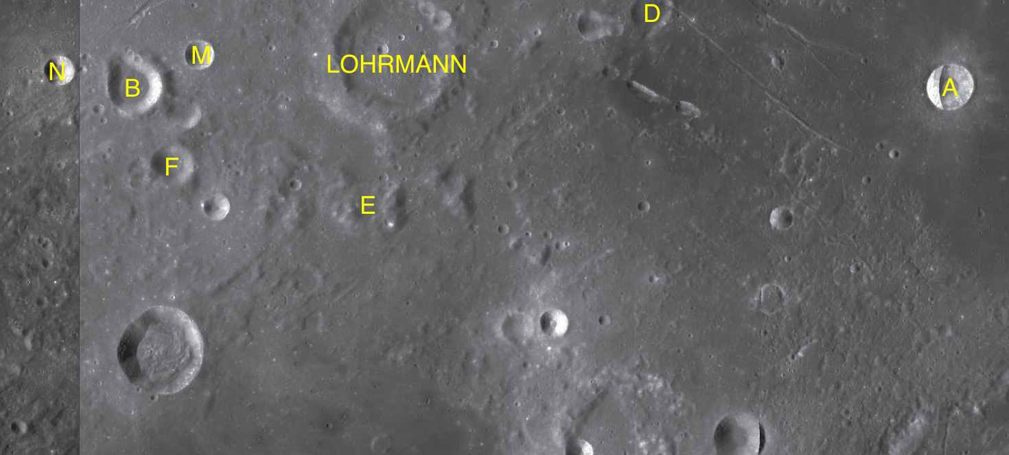 Parts of the charts LAC-73, LAC-74 used for the presentation